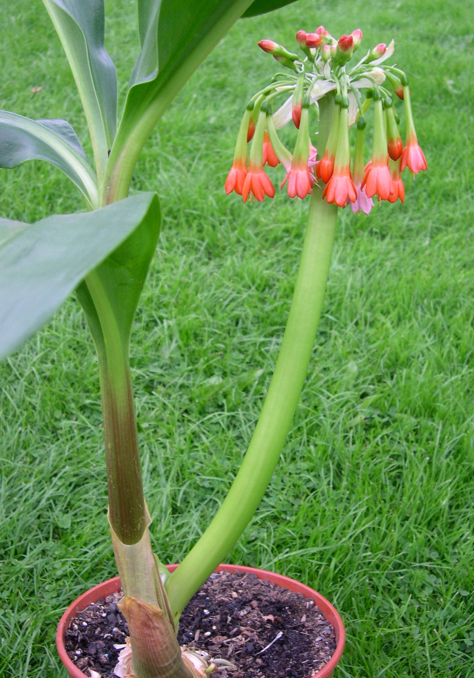 Flowering plant of Scadoxus cyrtanthiflorus in cultivation